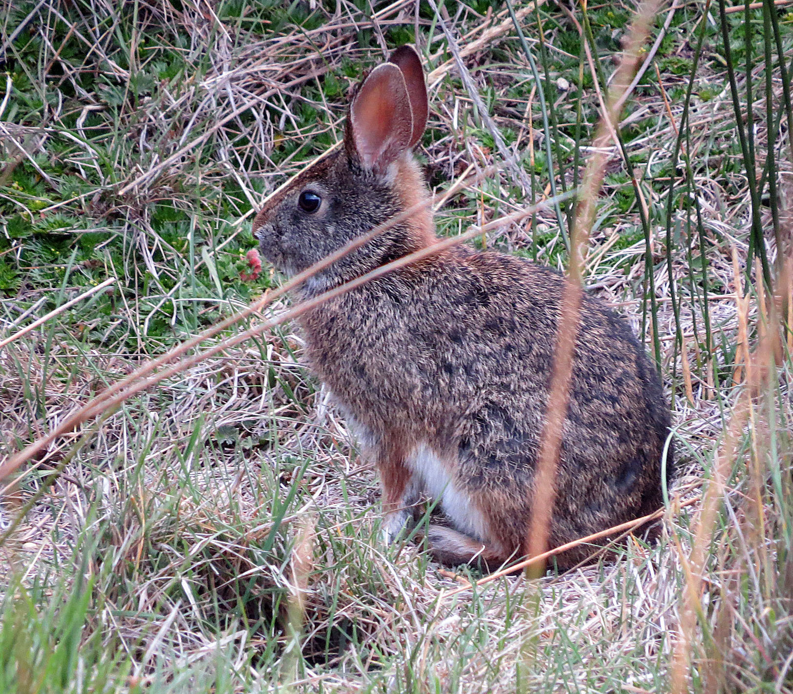 The Andean Rabbit. Photo from 4000 meters elevation in the bunchgrass paramo around Mt. Chimborazo, Ecuador.